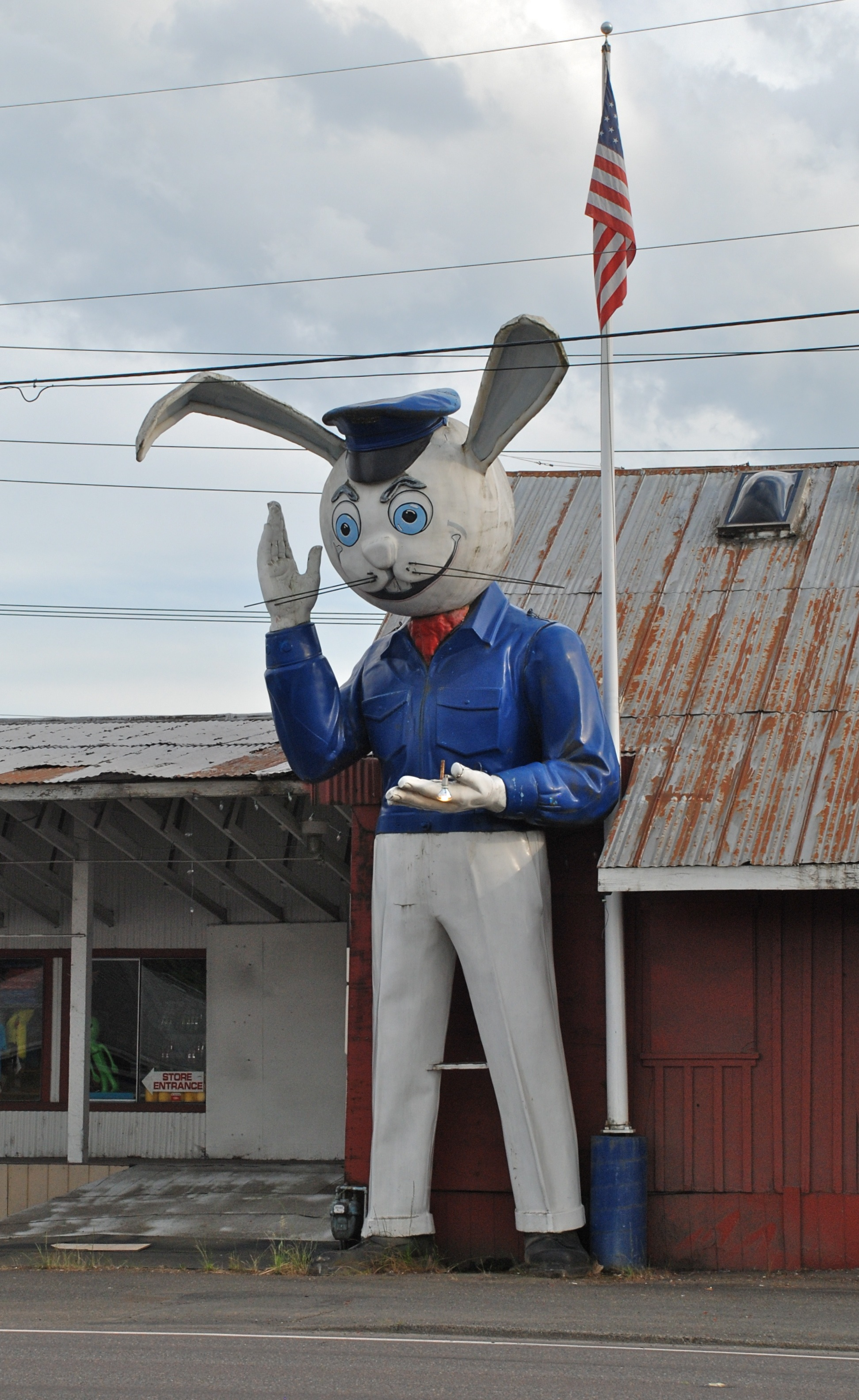 Harvey the Giant Rabbit - novelty statue at Harvey Marine / Harvey Boat Works in Reedville, Oregon.